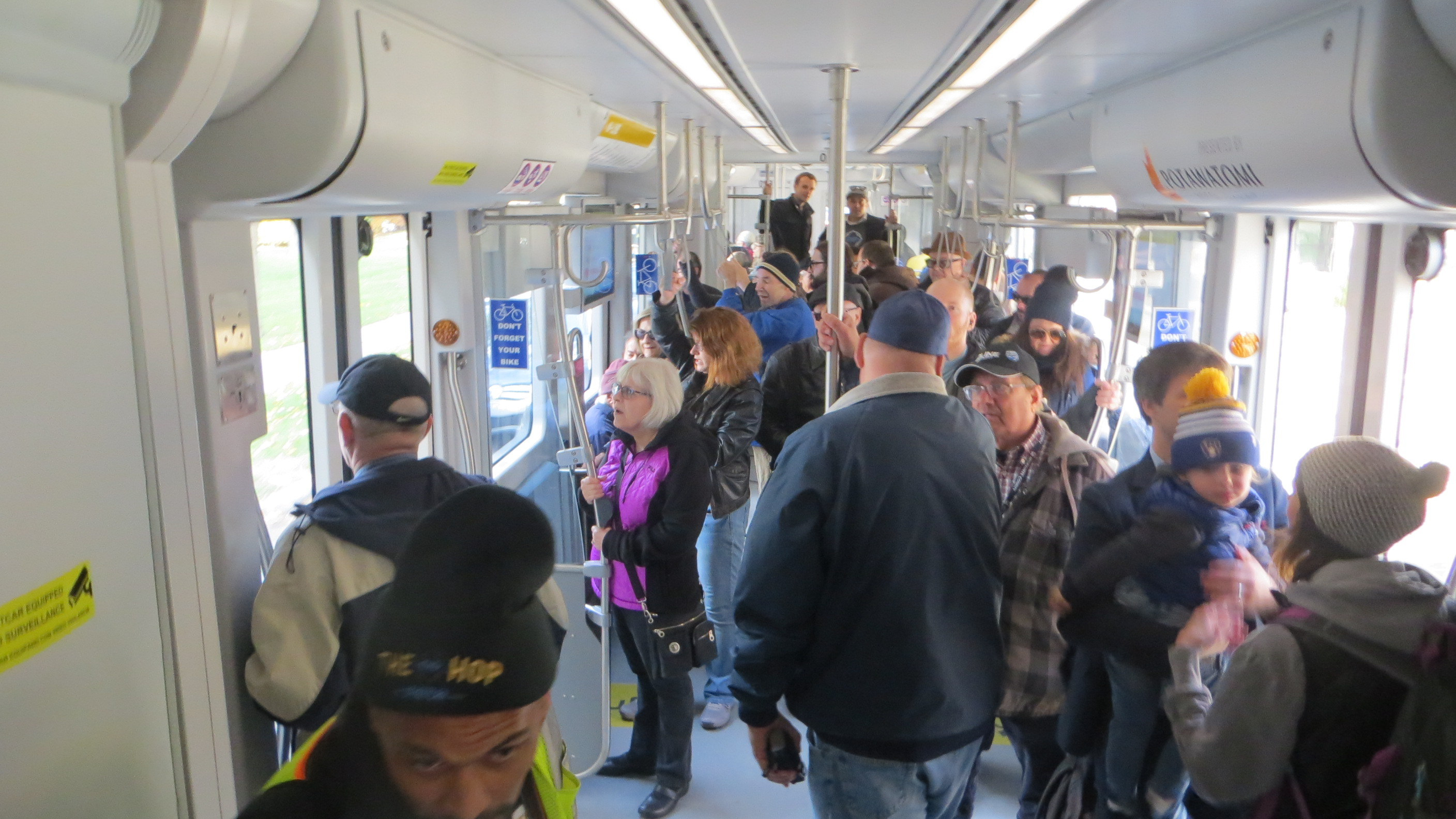 Interior view of a streetcar on Milwaukee's The Hop streetcar line on the line's opening day